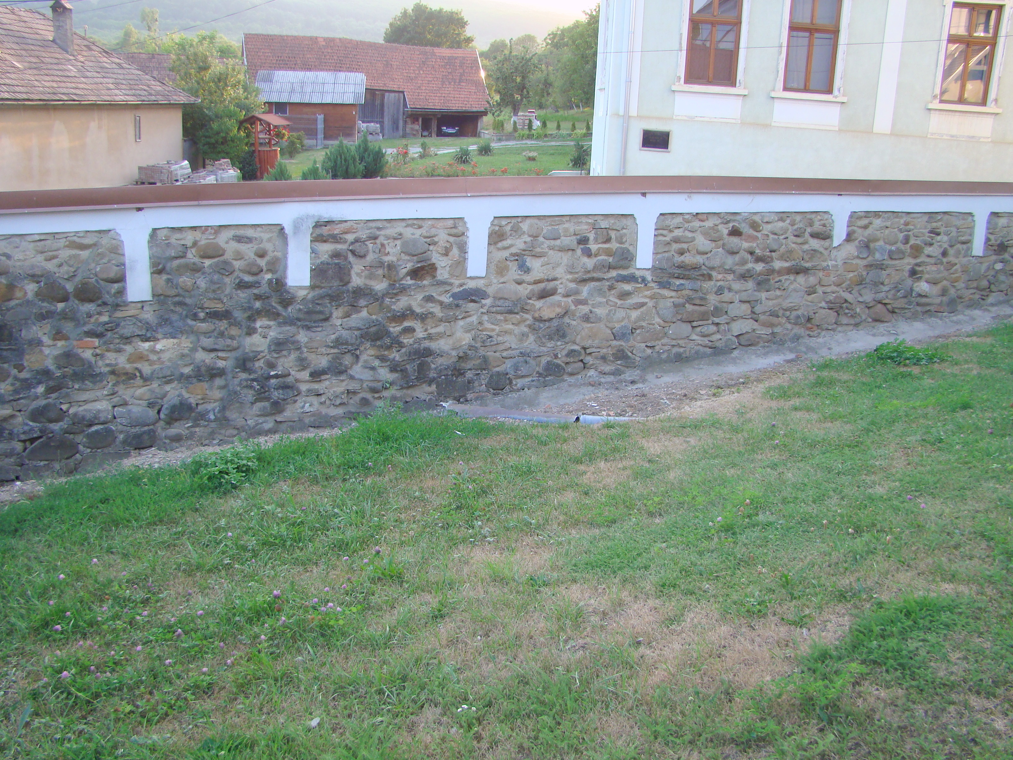 Reformed church in Forțeni, Harghita county, Romania